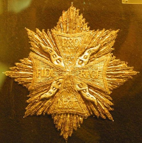 Gwaizda Ordeu Orła Białego (Plaque of the White Eagle Order). XVIII wiek (18th century).